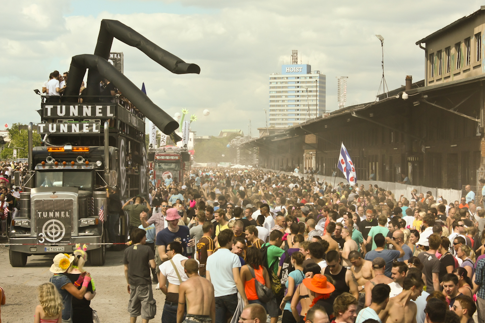 Loveparade 2010